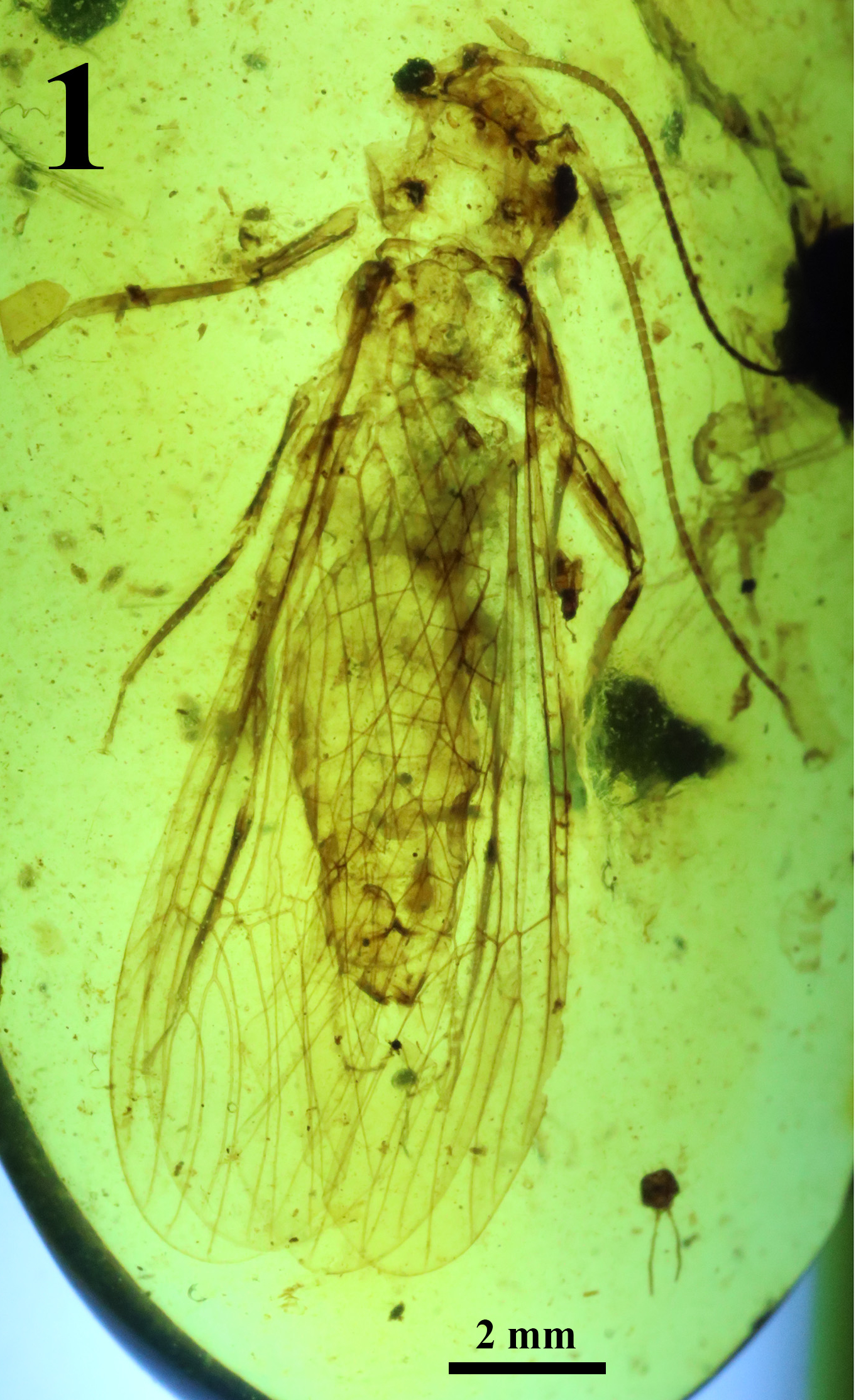 FIGURE 1–2. Largusoperla crassus, 1. Adult habitus, dorsal view.